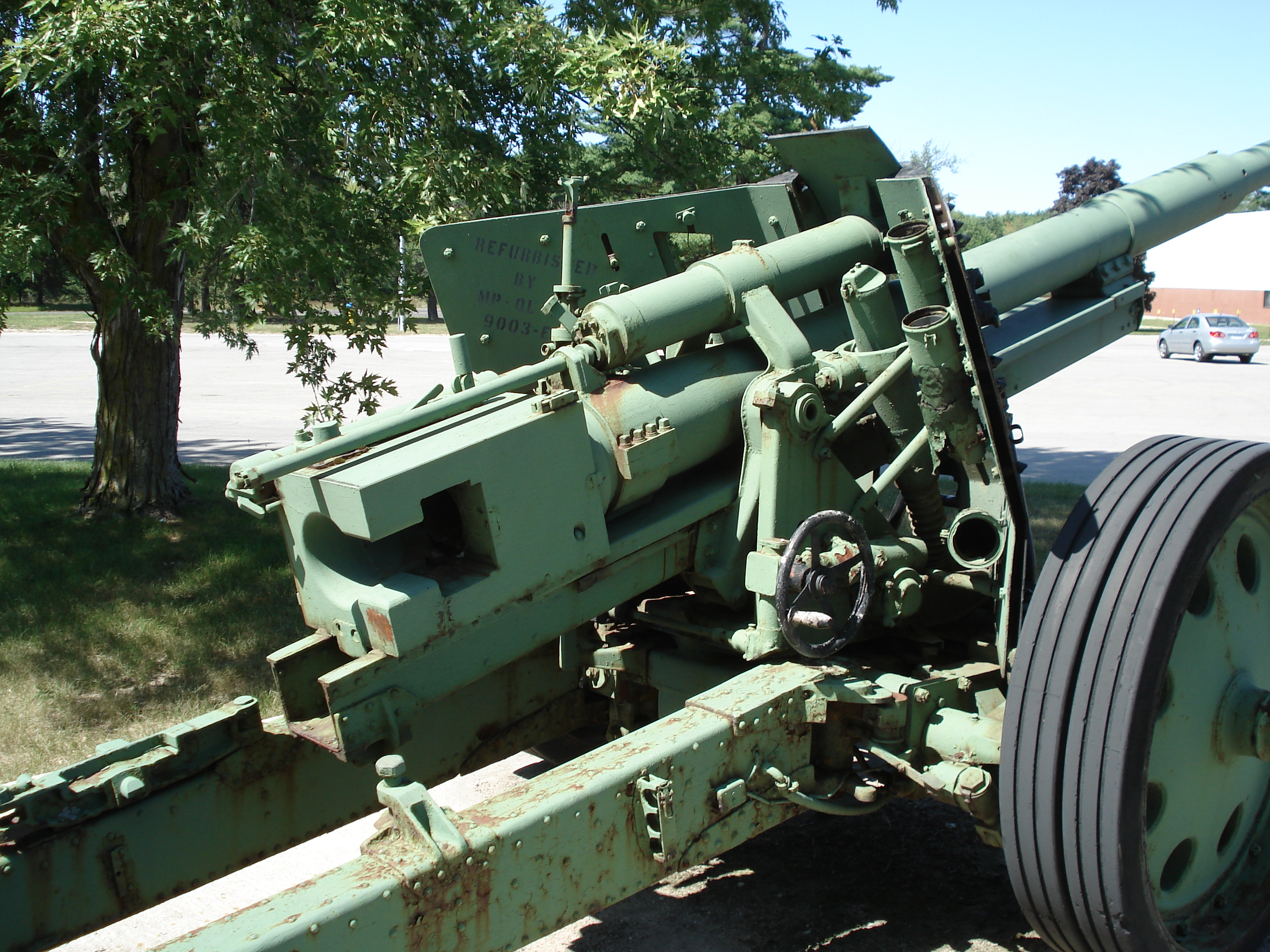 German PaK 43/41 88 mm anti-tank gun, displayed on the grounds of CFB Borden (Base Borden Military Museum). Photo taken on August 12, 2006. Source: Photo by me, User:Balcer.